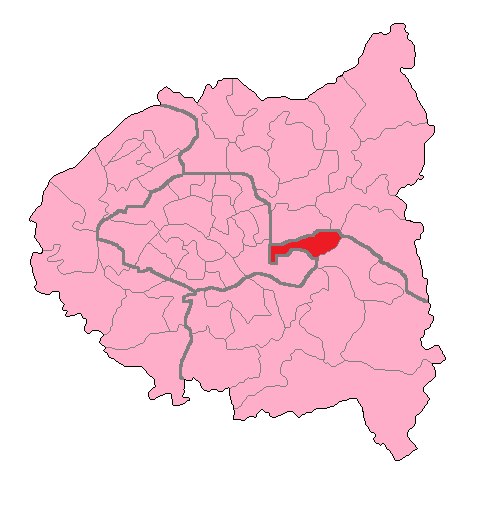 Map of Val-de-Marne's 6th constituency shown within Ile-de-France (Petite Couronne)